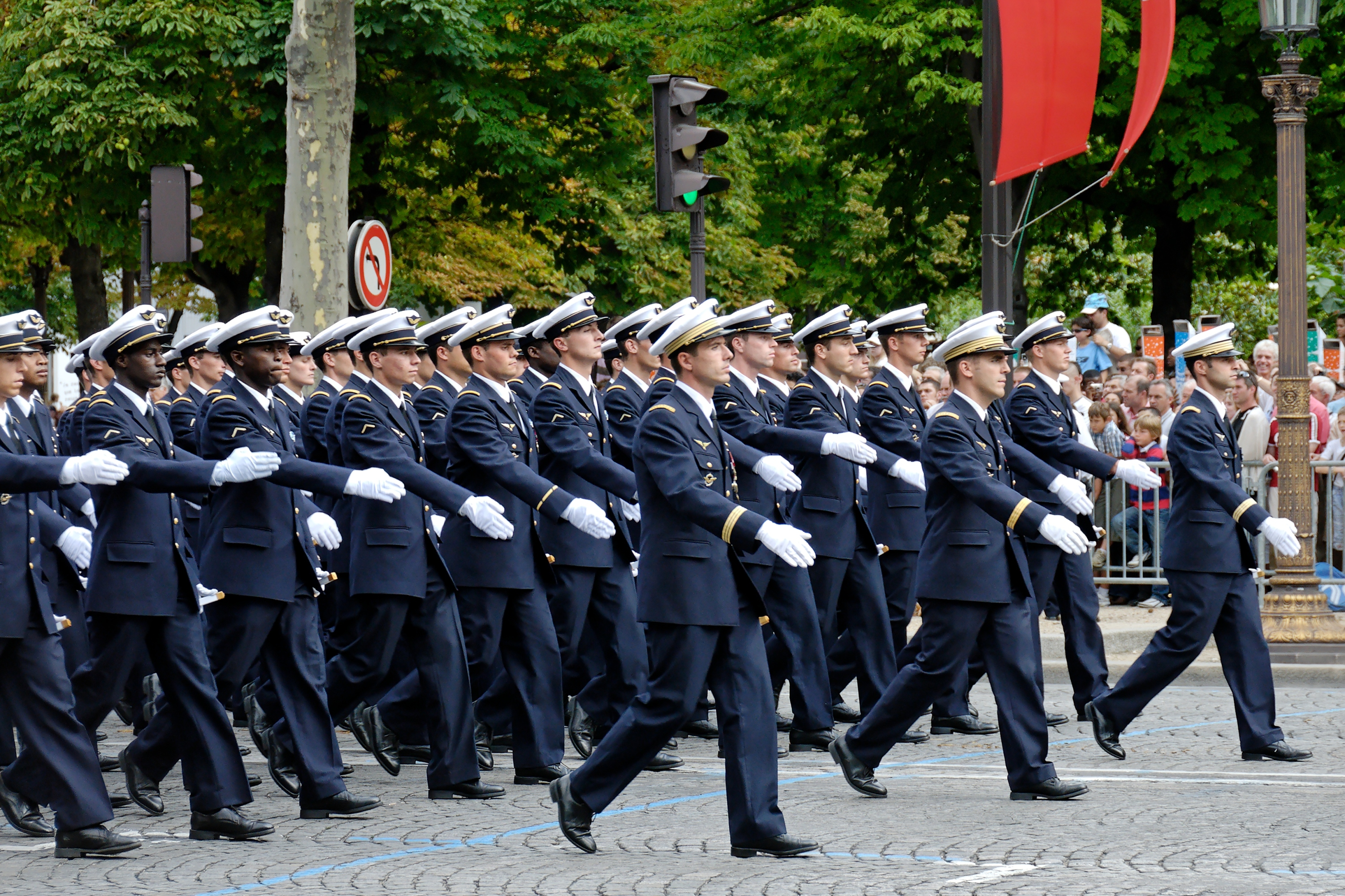 Cadets of the École de l'Air (French Air Force academy) during the 2007 military parade on the Champs-Élysées.